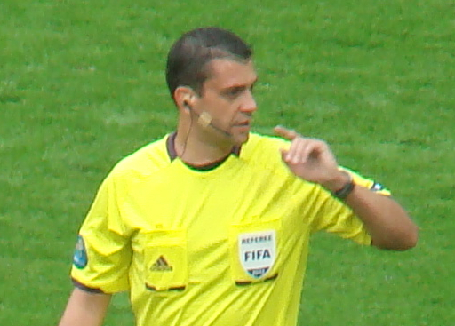 Viktor Kassai, referee during the UEFA Euro 2012 game Spain vs Italy in Gdańsk, 10th June 2012.